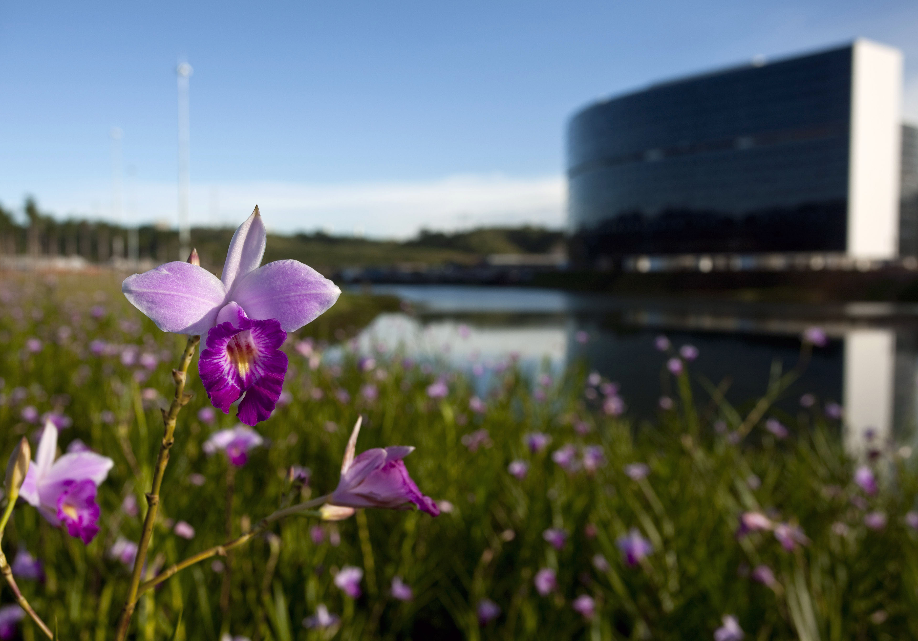 Foto da Cidade Administrativa